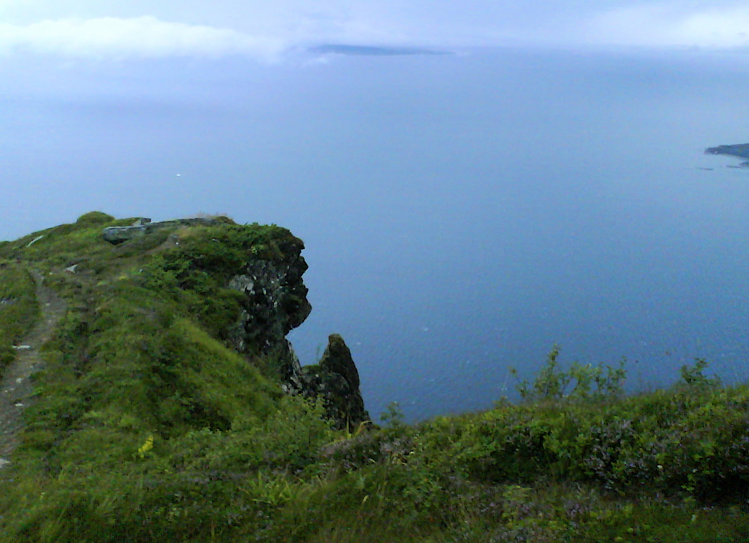 On the path towards the mountain Hellandshornet.